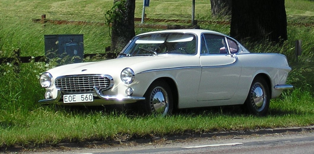 A 1961 Volvo P1800 (P18395 VA). Photographed by my girlfriend in Mariefred, Sweden 2005.